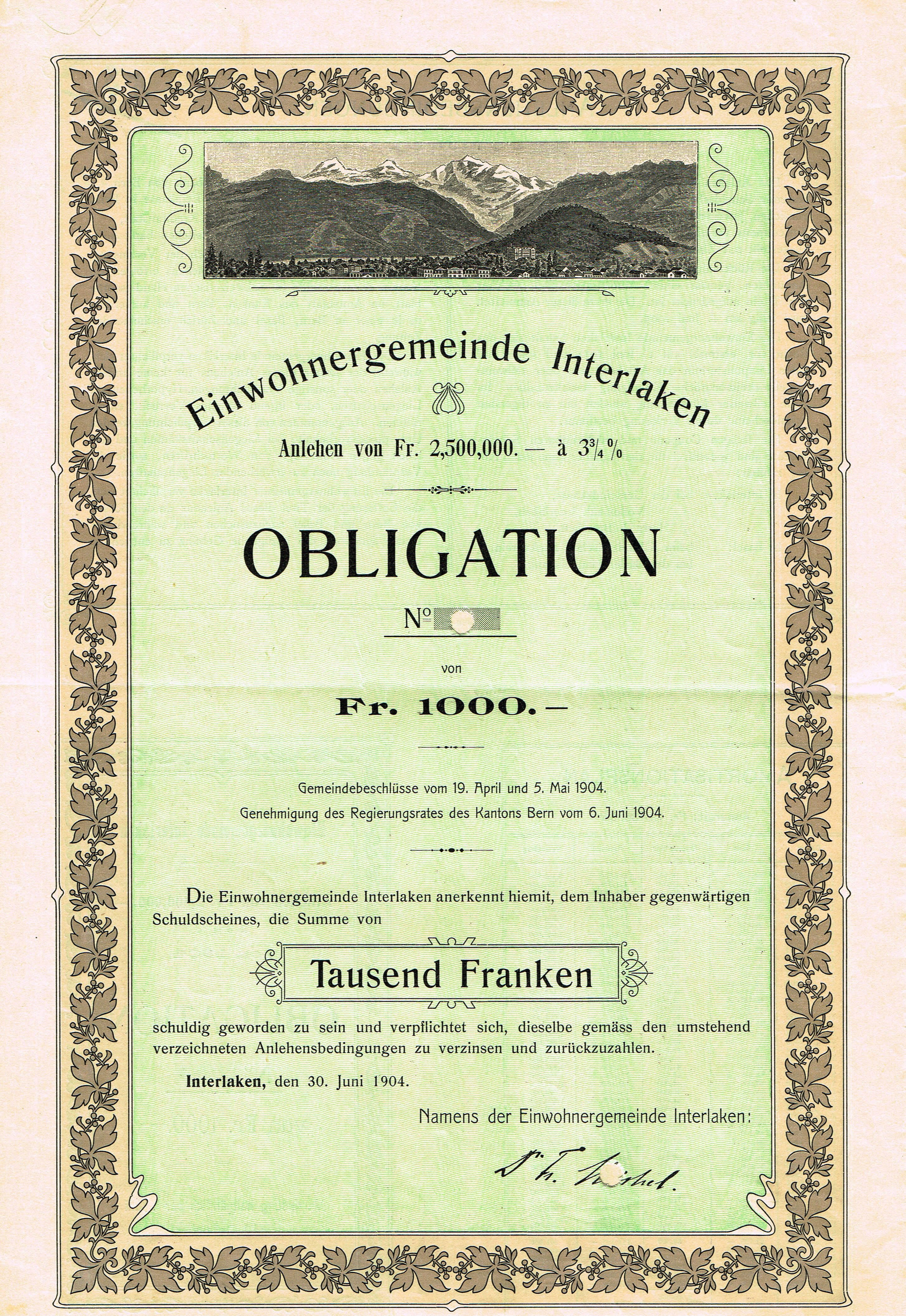 Bond of the Einwohnergemeinde Interlaken, issued 30. June 1904